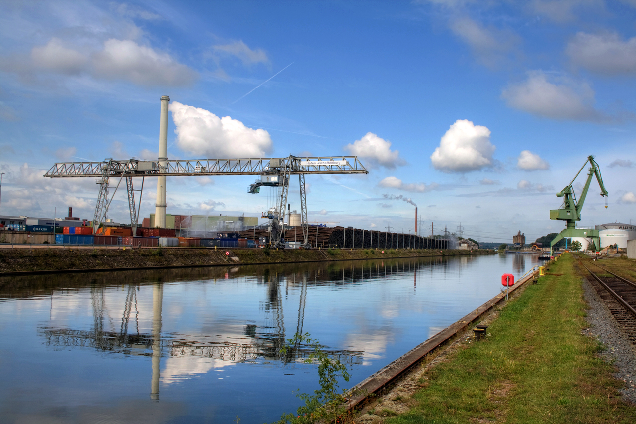 Aschaffenburg Harbour, Germany (day)